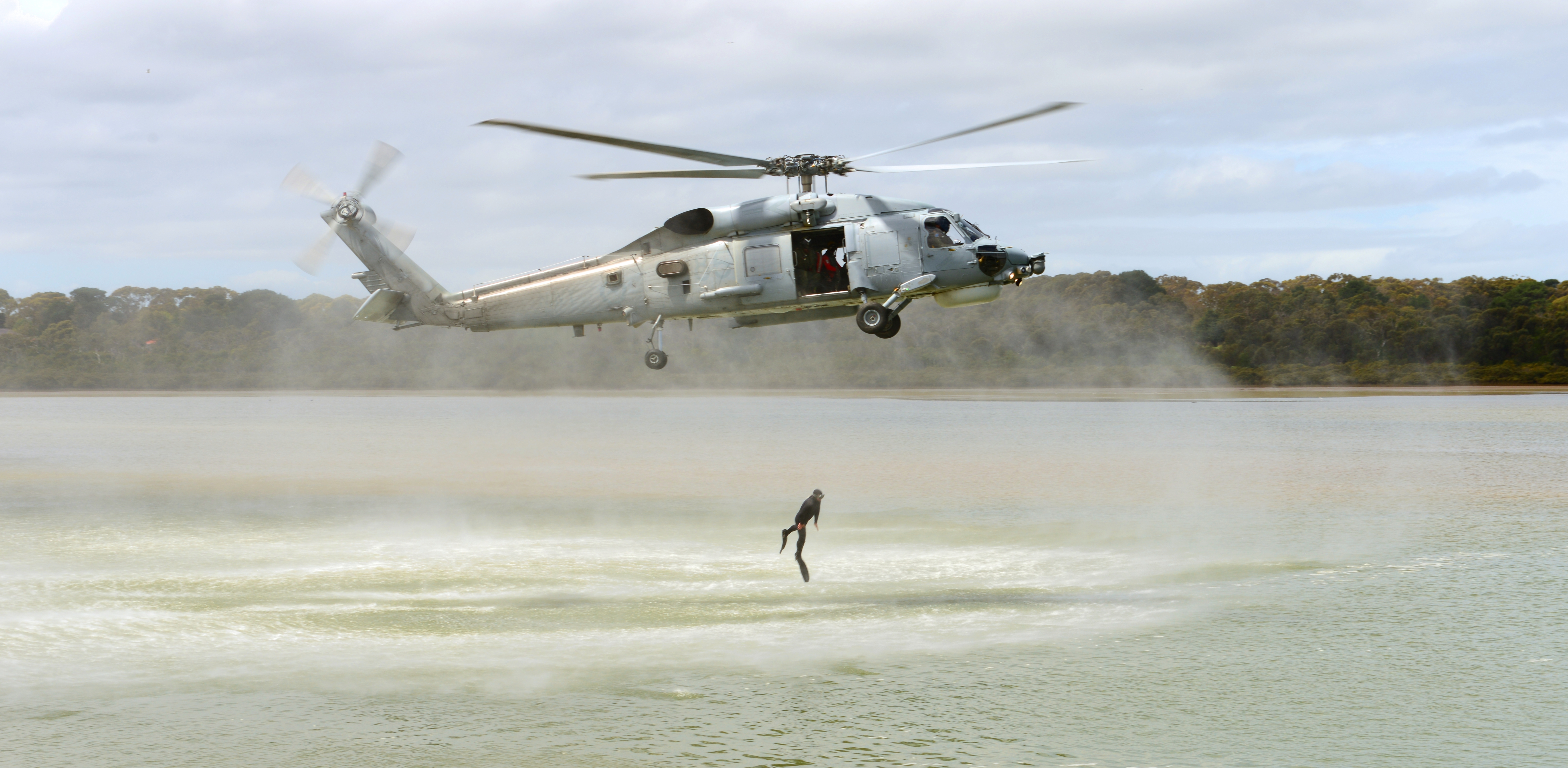 Diver leaps from the Seahawk helicopter as part of the HMAS Cerberus Open Day public demonstration. HMAS Cerberus is the Royal Australian Navy's primary training establishment located adjacent to Crib Point on the Mornington Peninsula, south of Melbourne, Victoria, Australia.